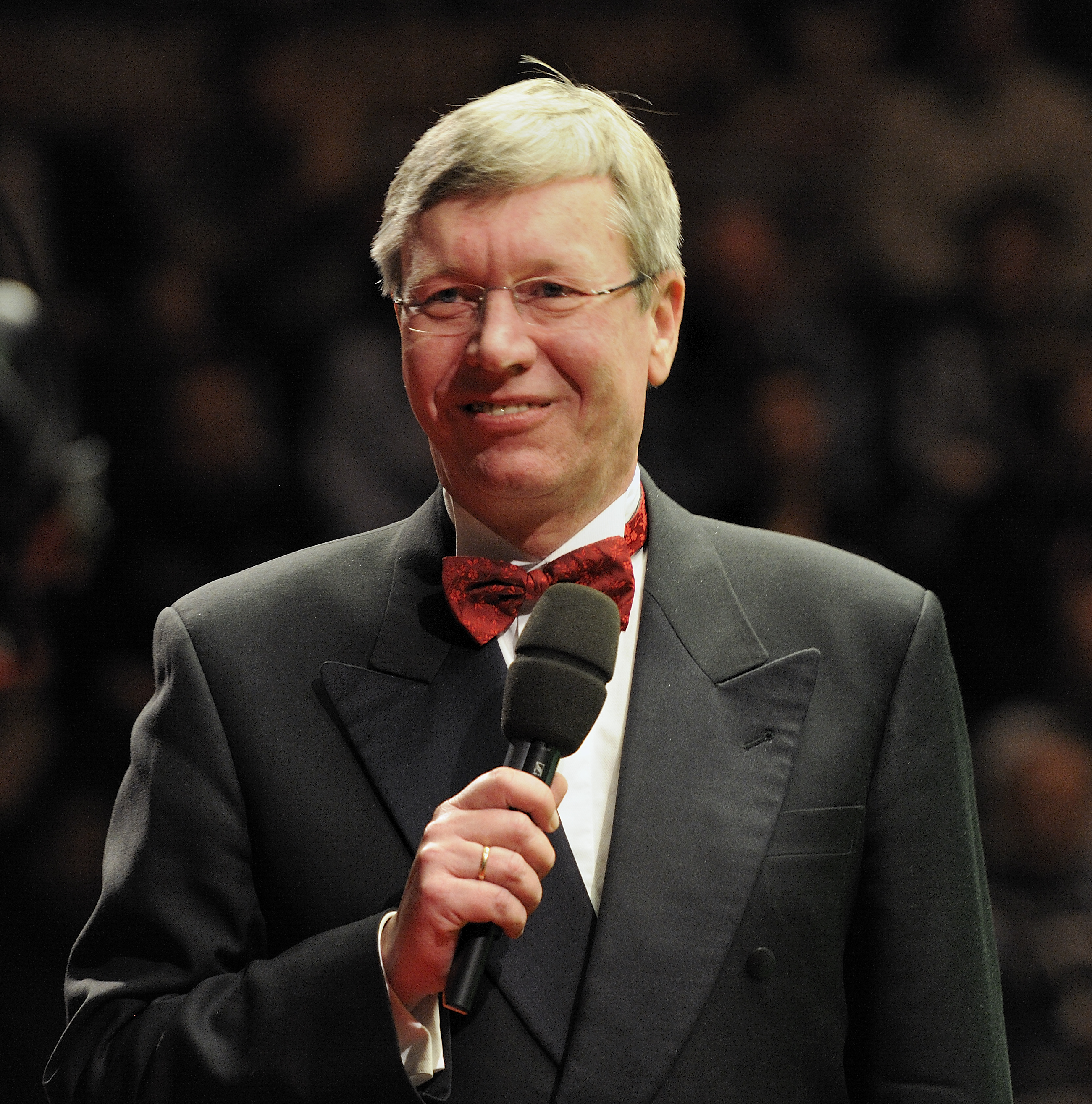 Picture taken in Berlin during the Snooker German Masters in 2012. Rolf Kalb.